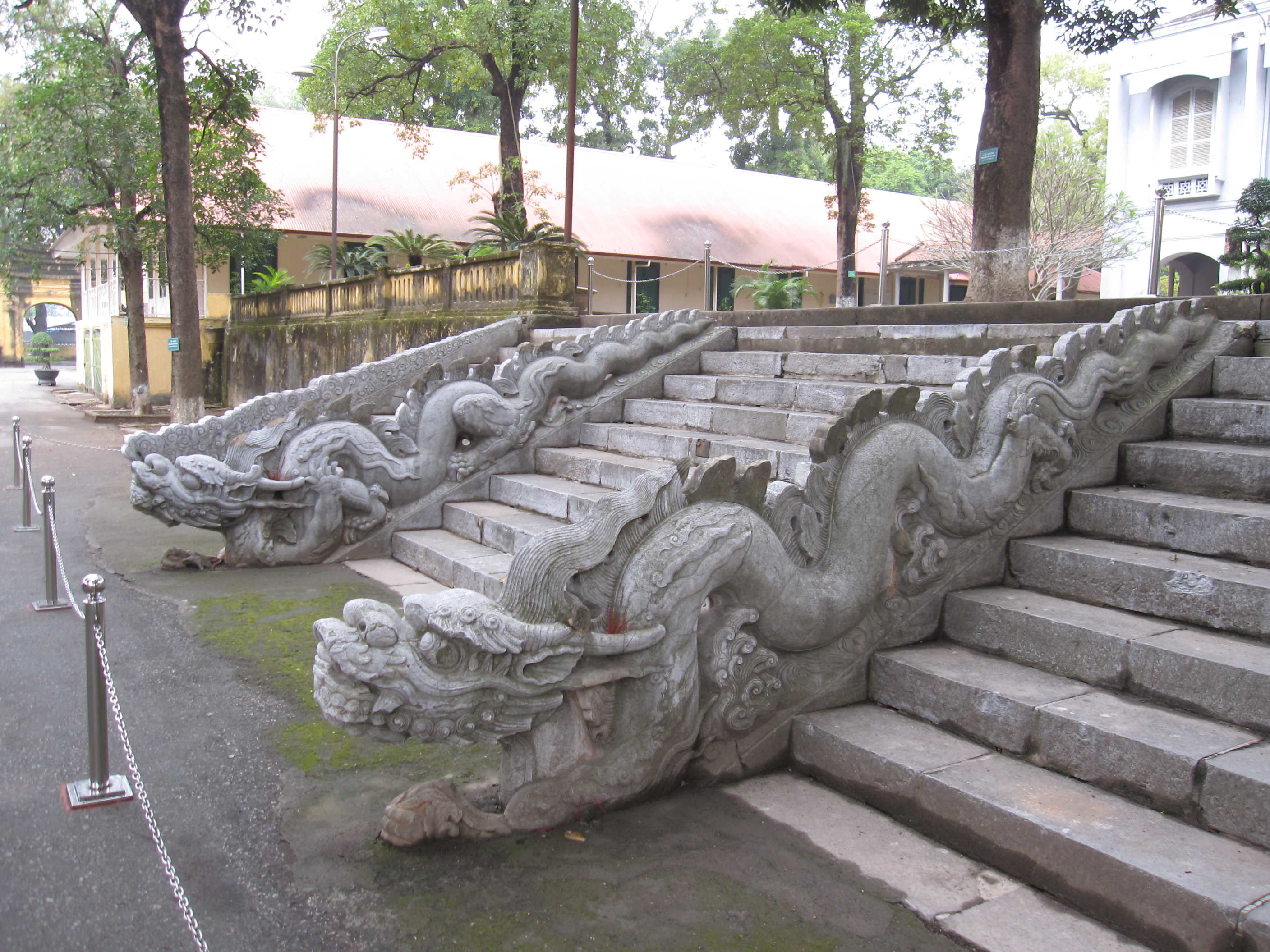 Remains of Kính Thiên Palace, Hanoi Citadel